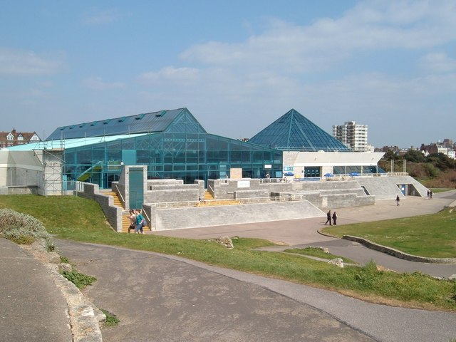 The Pyramids, Southsea A leisure centre with fun pools in a great position facing the Solent on Southsea seafront.